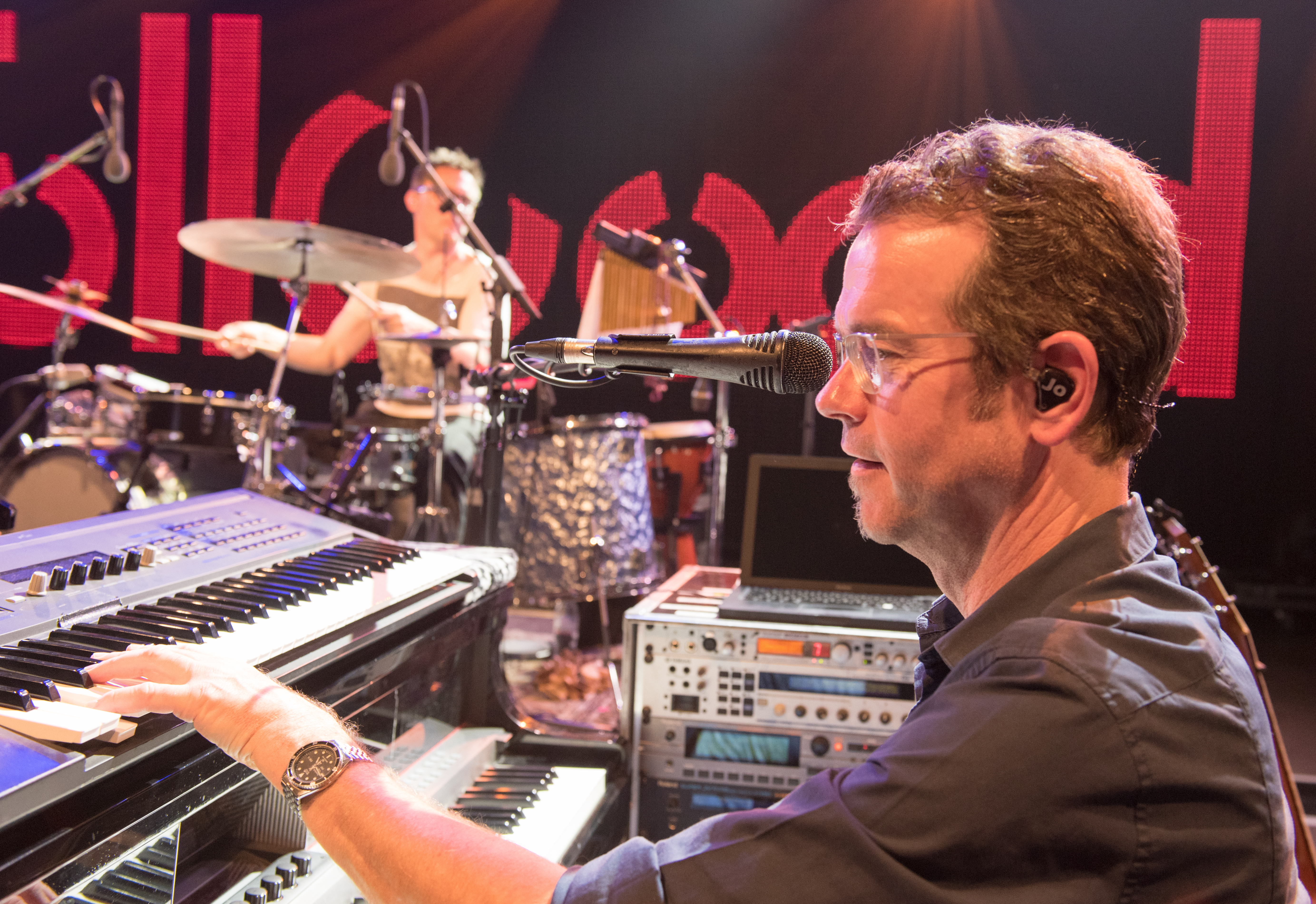 Jo Barnikel, German musican